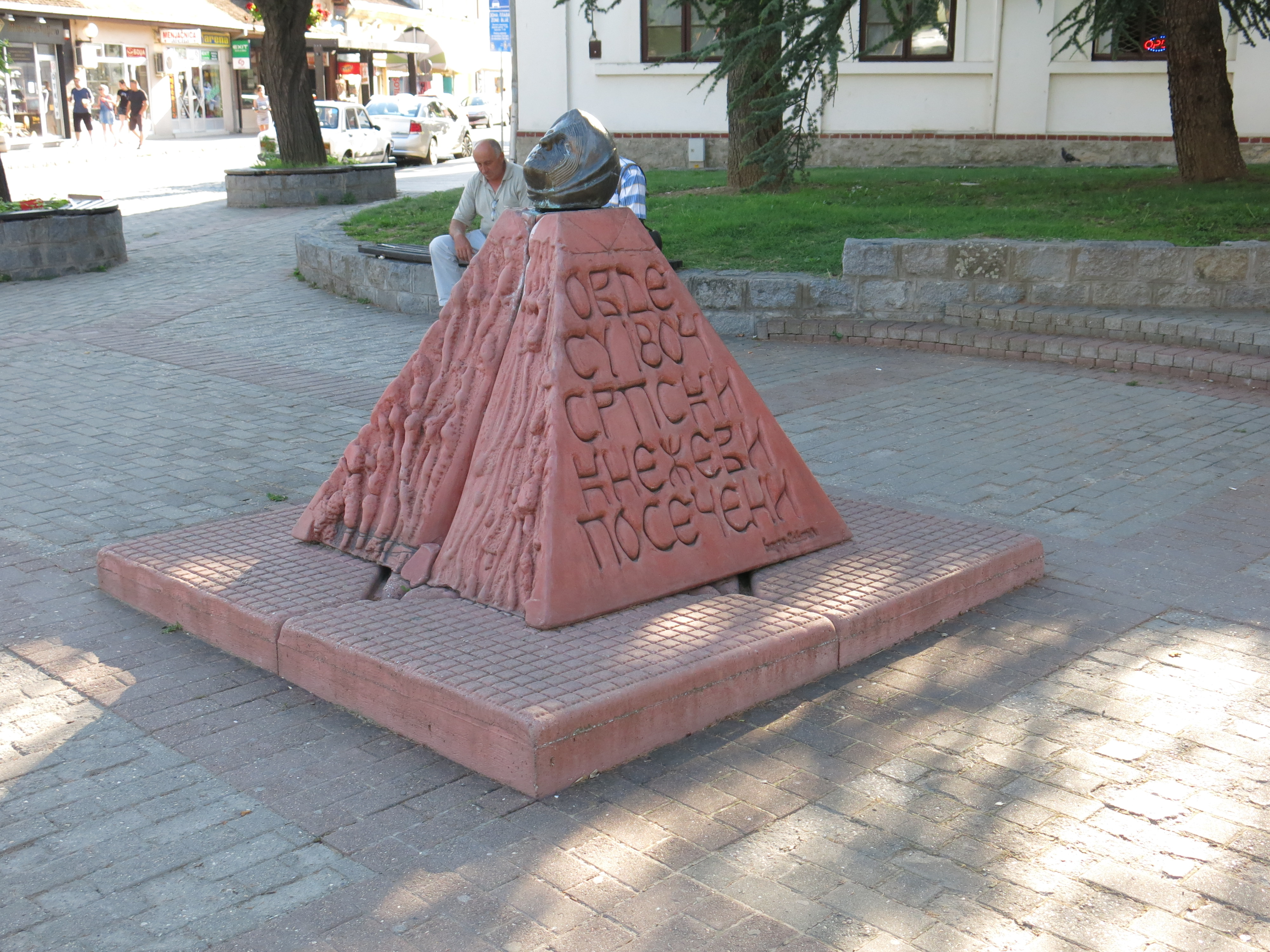 Valjevo, Slaughter of the Knezes sculpture